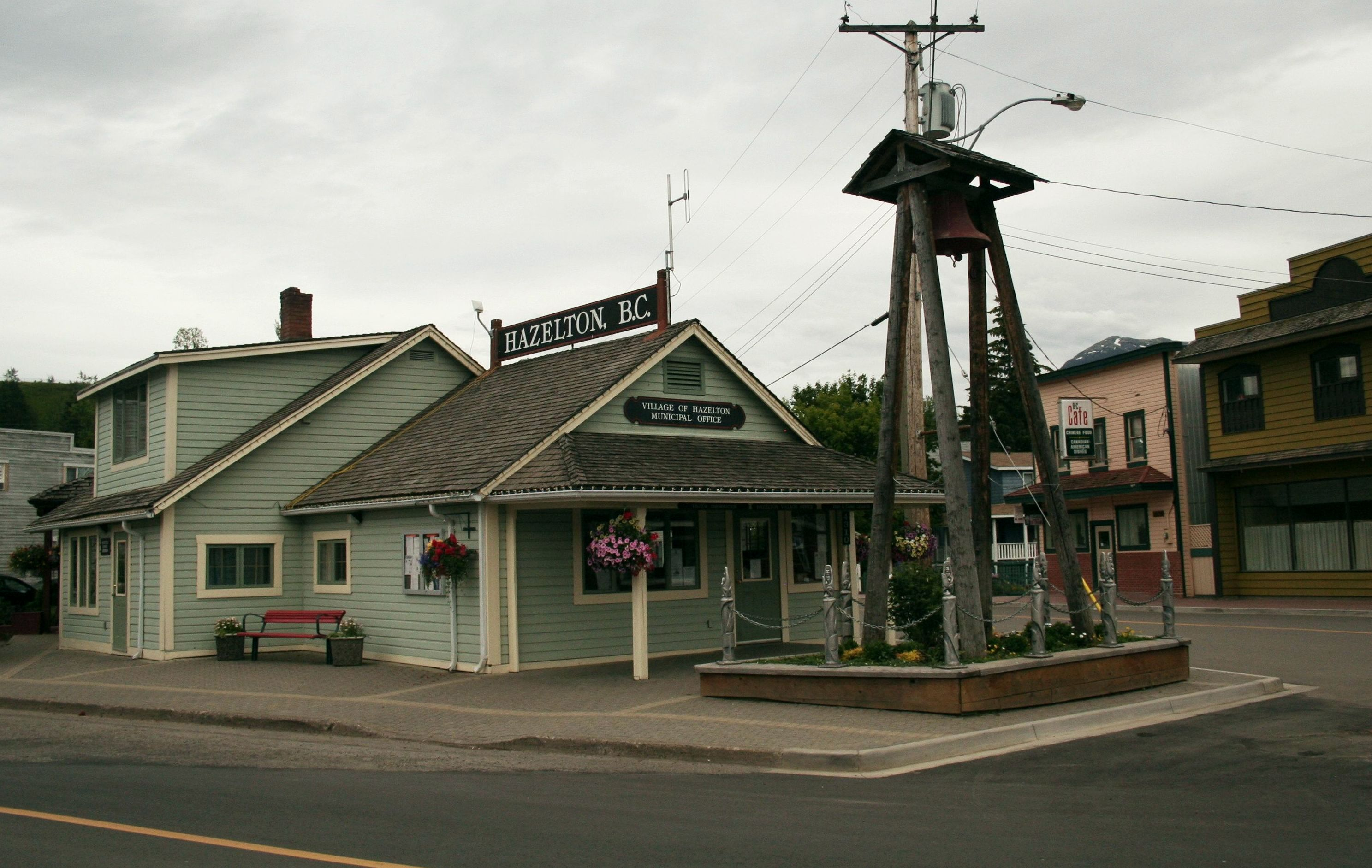 The Village of Hazelton Municipal Office in (Old) Hazelton, British Columbia.